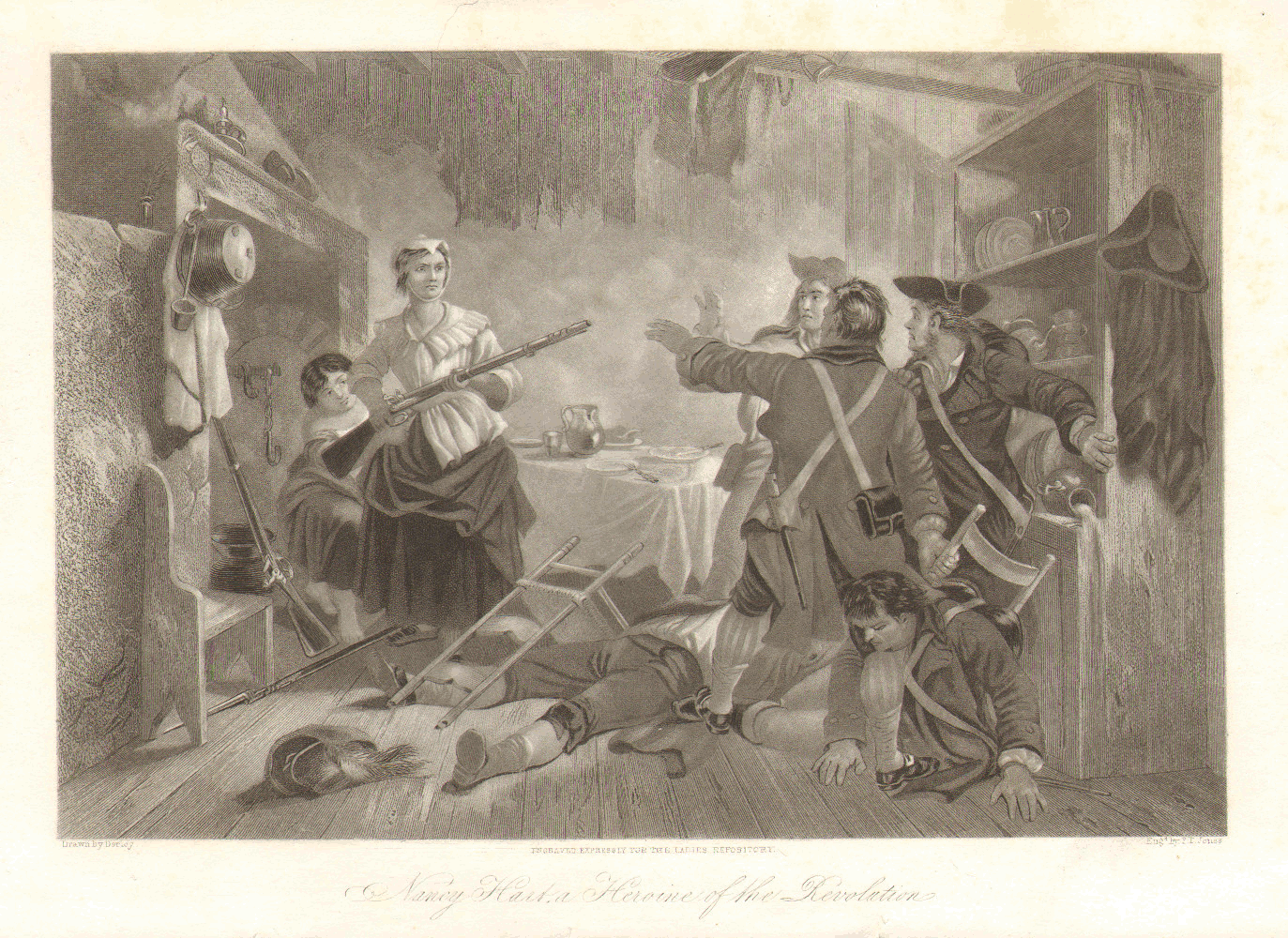 An illustration of Nancy Morgan Hart fighting against six British soldiers that entered her home